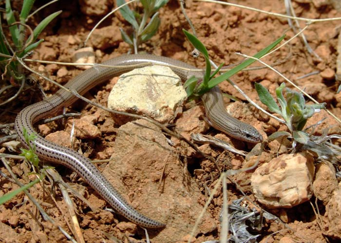 Ophiomorus_Persicus_by_Omid_Mozaffari